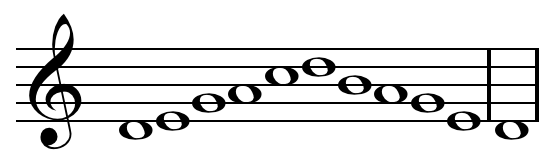 Yo scale on D, ascending and descending. Created by Hyacinth (talk) 23:32, 24 January 2012 (UTC) using Sibelius 5.